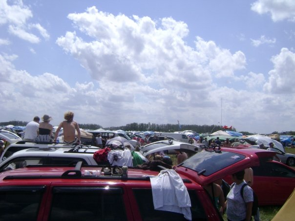 Photo from the campgrounds at Langerado 2008 at Big Cypress Seminole Reservation